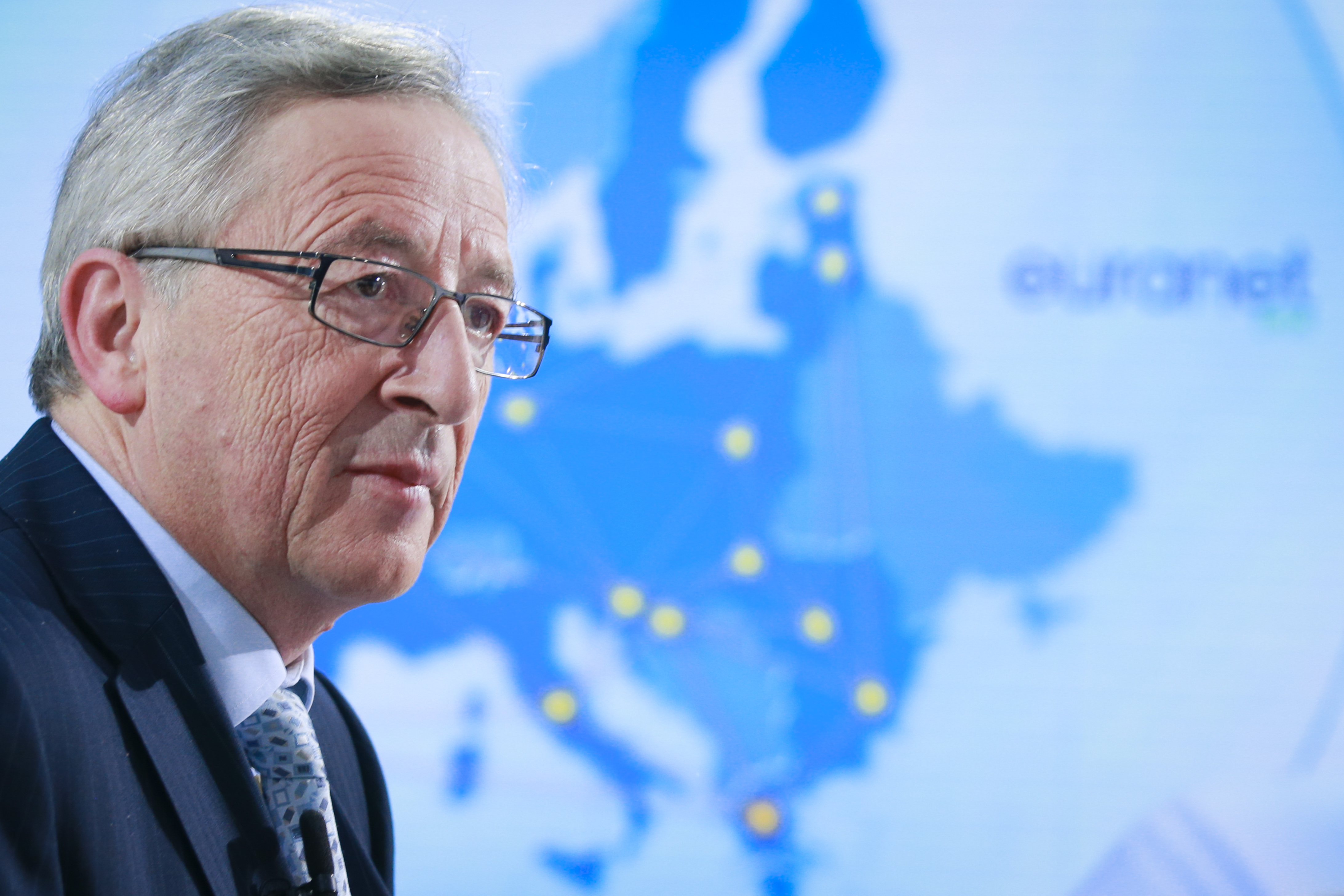 Who will be the next president of the European Commission? And how will he – or she – deal with the big election issues, like mobility, energy and unemployment? With just weeks to go before the EU-wide election in May, Euranet Plus talk directly with the top candidates. On April 29, the presidential hopefuls came together to answer these questions and more, outlining their plans for the next five years. Guests - Jean-Claude Juncker (European People’s Party), - Ska Keller (European Green Party), - Martin Schulz (Party of European Socialists) and - Guy Verhofstadt (Alliance of Liberals and Democrats for Europe) Moderators: - Brian Maguire - Ahinara Bascuñana López The videos, audios and all the details about the Big Crunch debate at